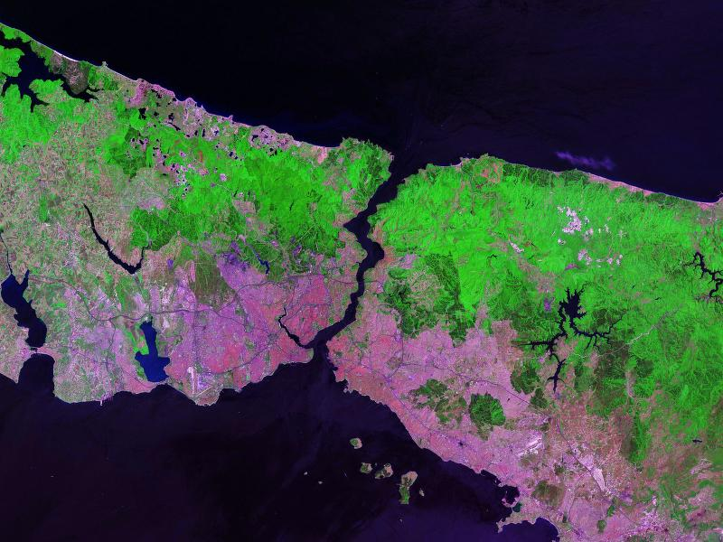 Bosphorus - Landsat satellite photo (circa 2000) Source: NASA, public domain